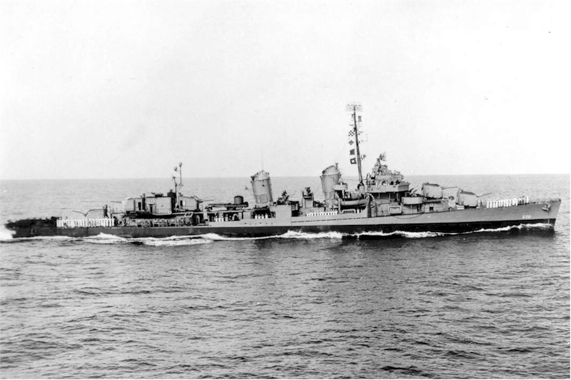 The U.S. Navy destroyer USS Isherwood (DD-520) underway, circa in late 1945.